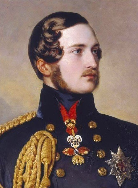 Prince Albert of Saxe-Coburg and Gotha (Francis Augustus Charles Albert Emanuel, later HRH The Prince Consort) (August 26, 1819 – December 14, 1861) was the husband and consort of Queen Victoria of the United Kingdom of Great Britain and Ireland. Image detail.